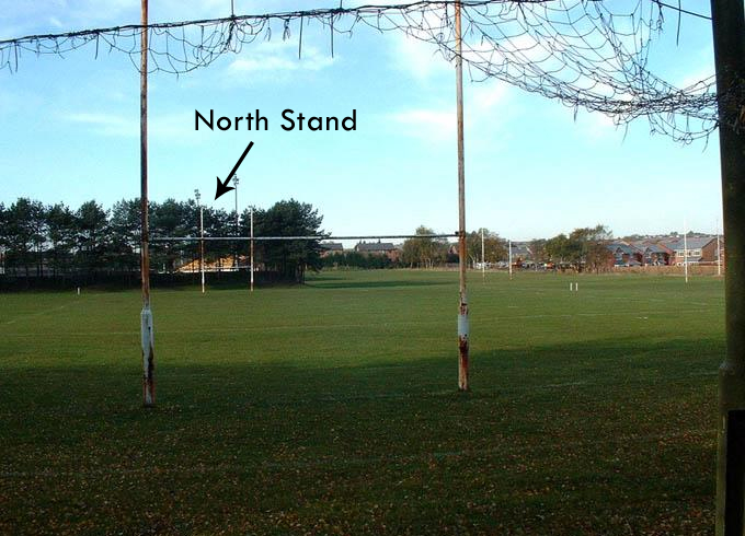 View of the three pitches that used to surround Edge Hall Road, now replaced by housing